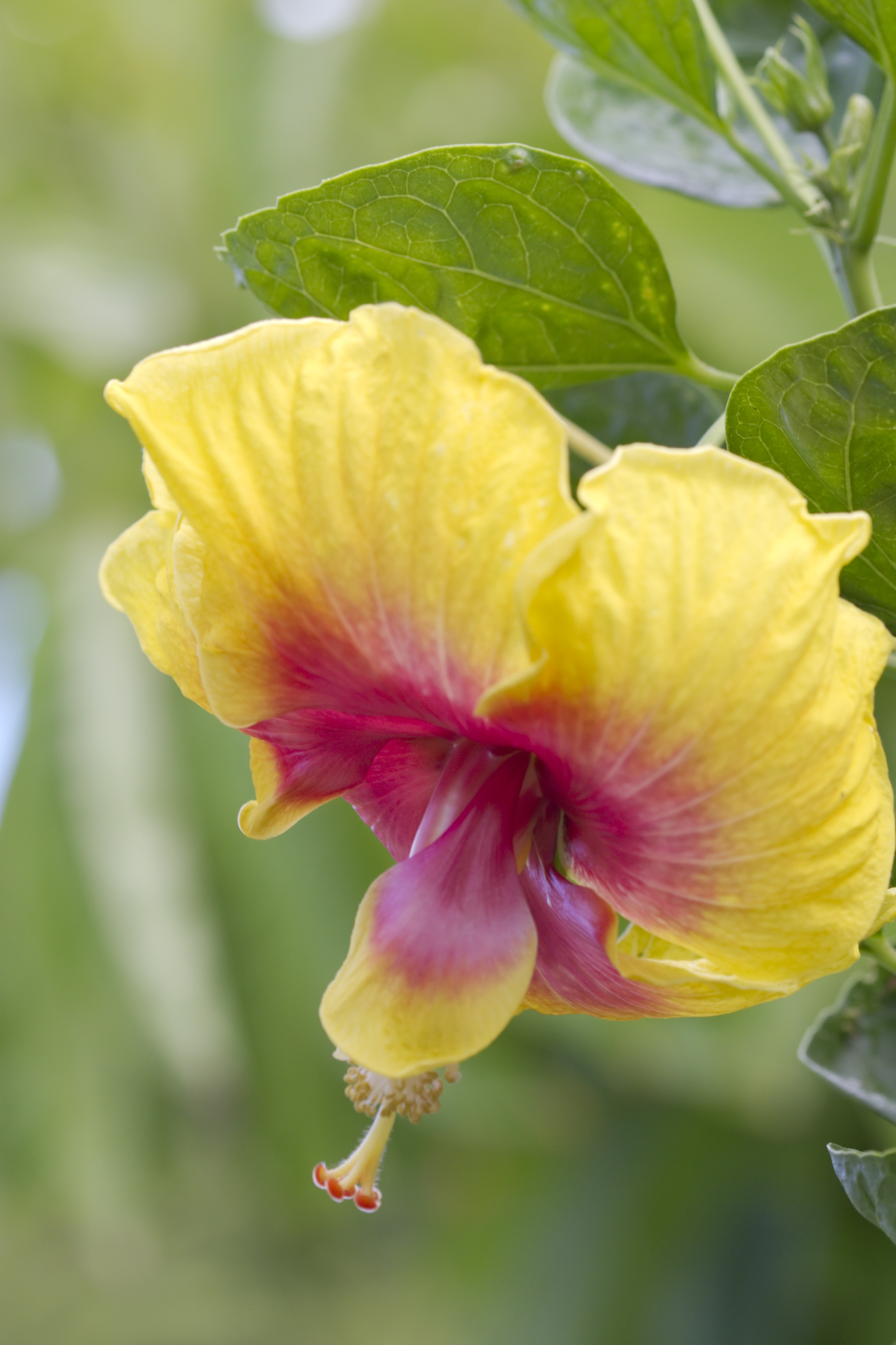 This was taken at the botanical garden across from Spouting Horn in Po'ipu. There were quite a few interesting varieties of hibiscus here.